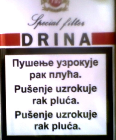 Three language warning label on pack of Drina cigarettes.